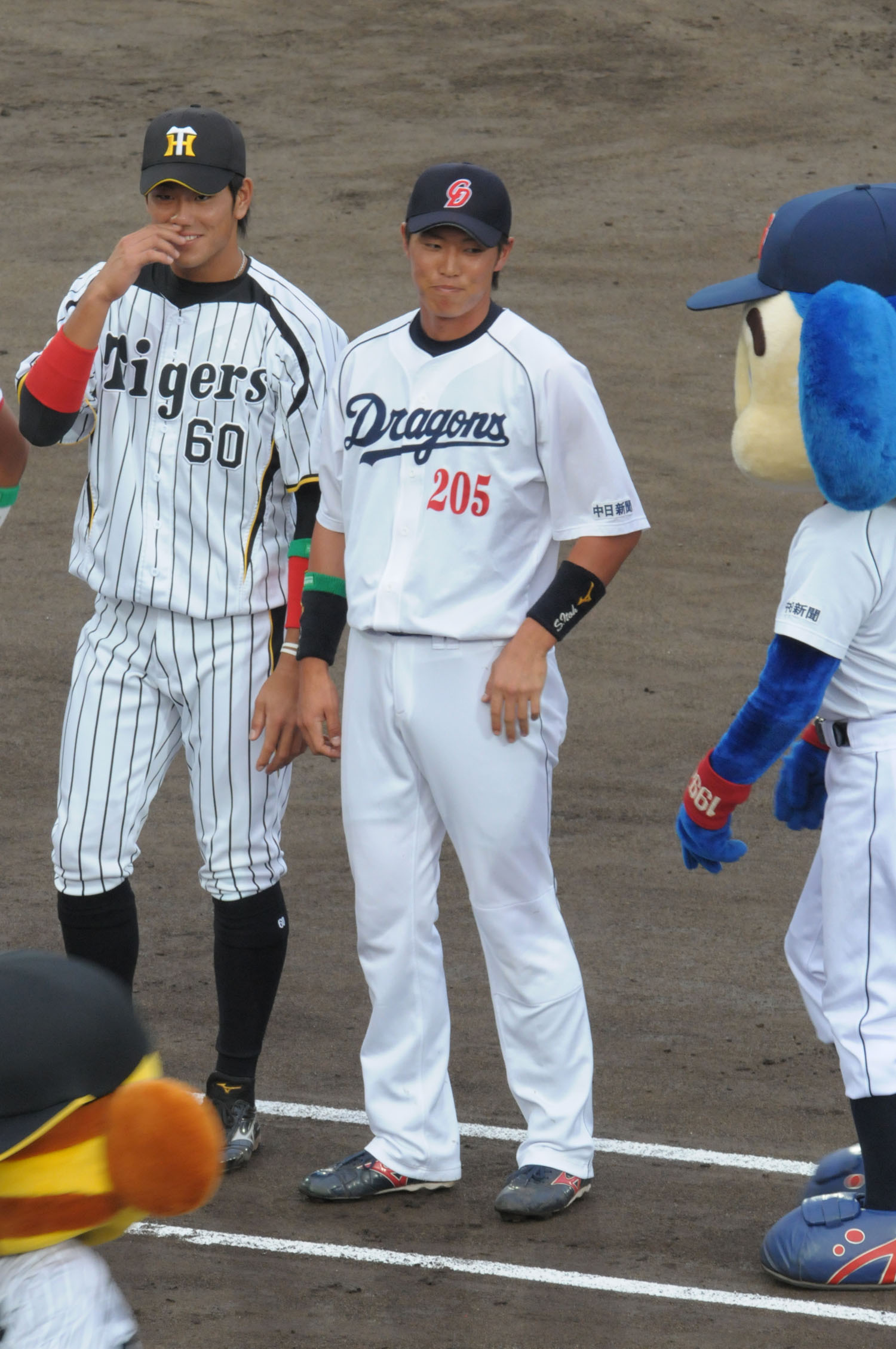 Shingo Ito, outfielder of the Chunichi Dragons, at Akita Prefectural Baseball Stadium.